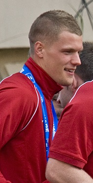 Danny Pilkington. Image cropped from original at flickr.